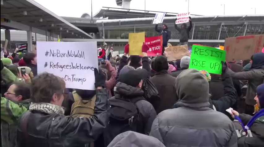 Protesters assemble at John F. Kennedy International Airport in New York, Jan. 28, 2017, protesting Trump's executive order on immigration